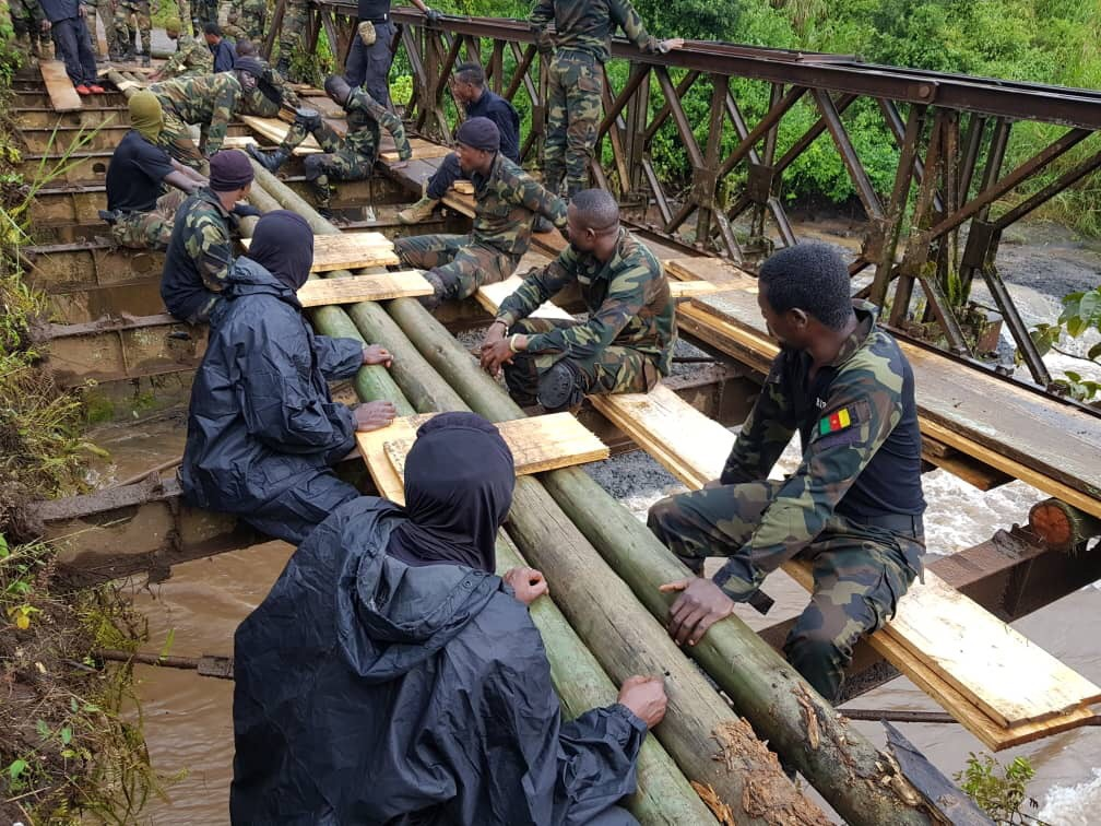 Cameroonian soldiers on a bridge, heading to Wum in Anglophone zone, December 6, 2018 (VOA/Ministère de la défense)